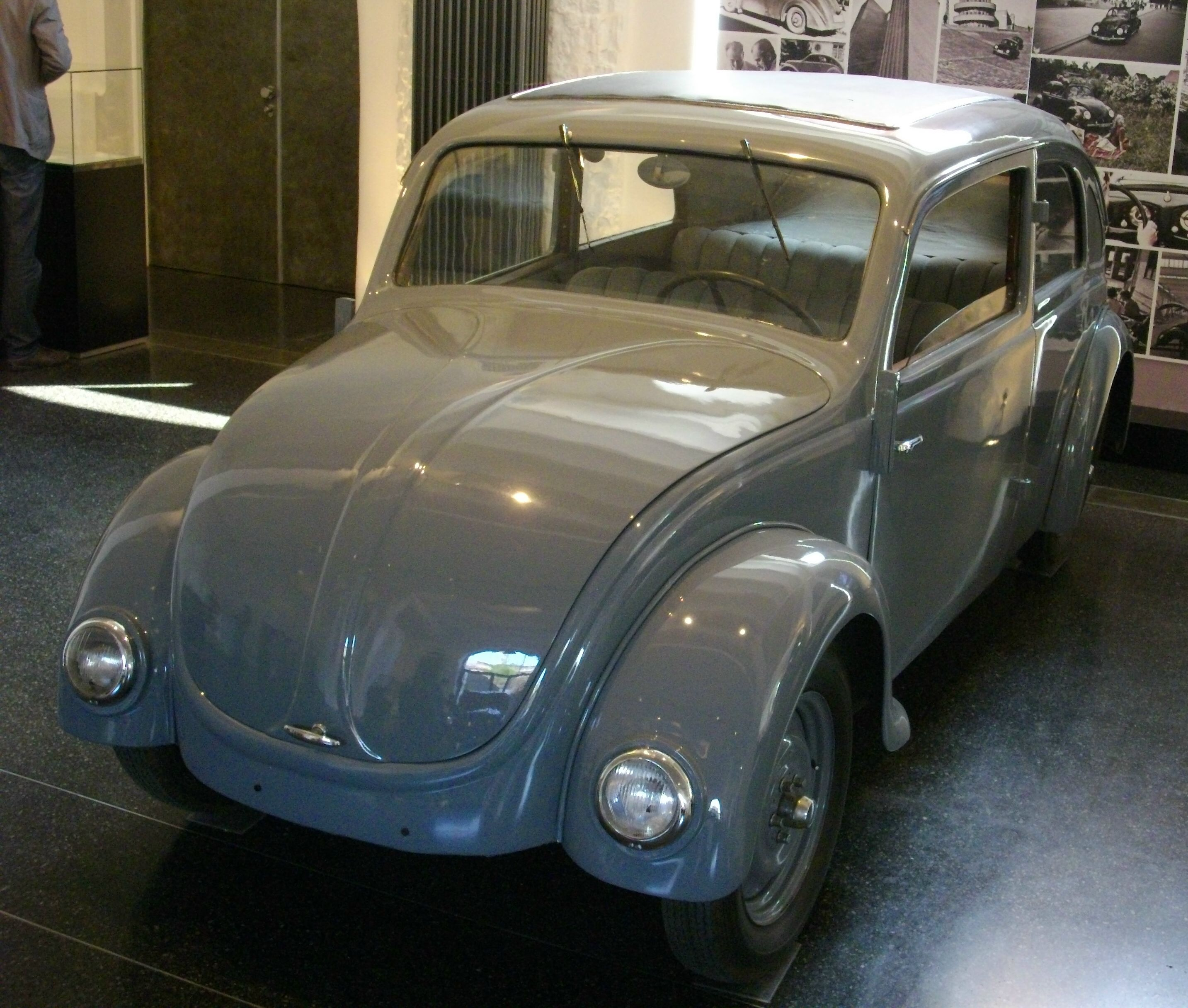 Volkswagen Bug Prototype, built by Ferdinand Porsche at NSU Motorenwerke in 1934, seen in the Prototype Museum, Hamburg.